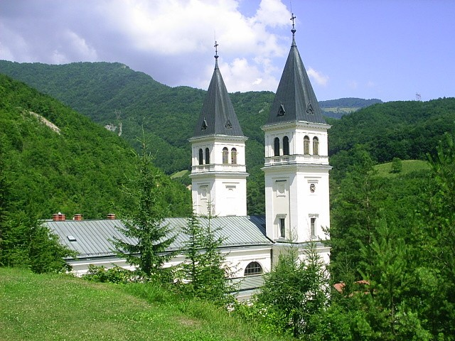 Franciscan church and monastery in Kraljeva Sutjeska, BiH